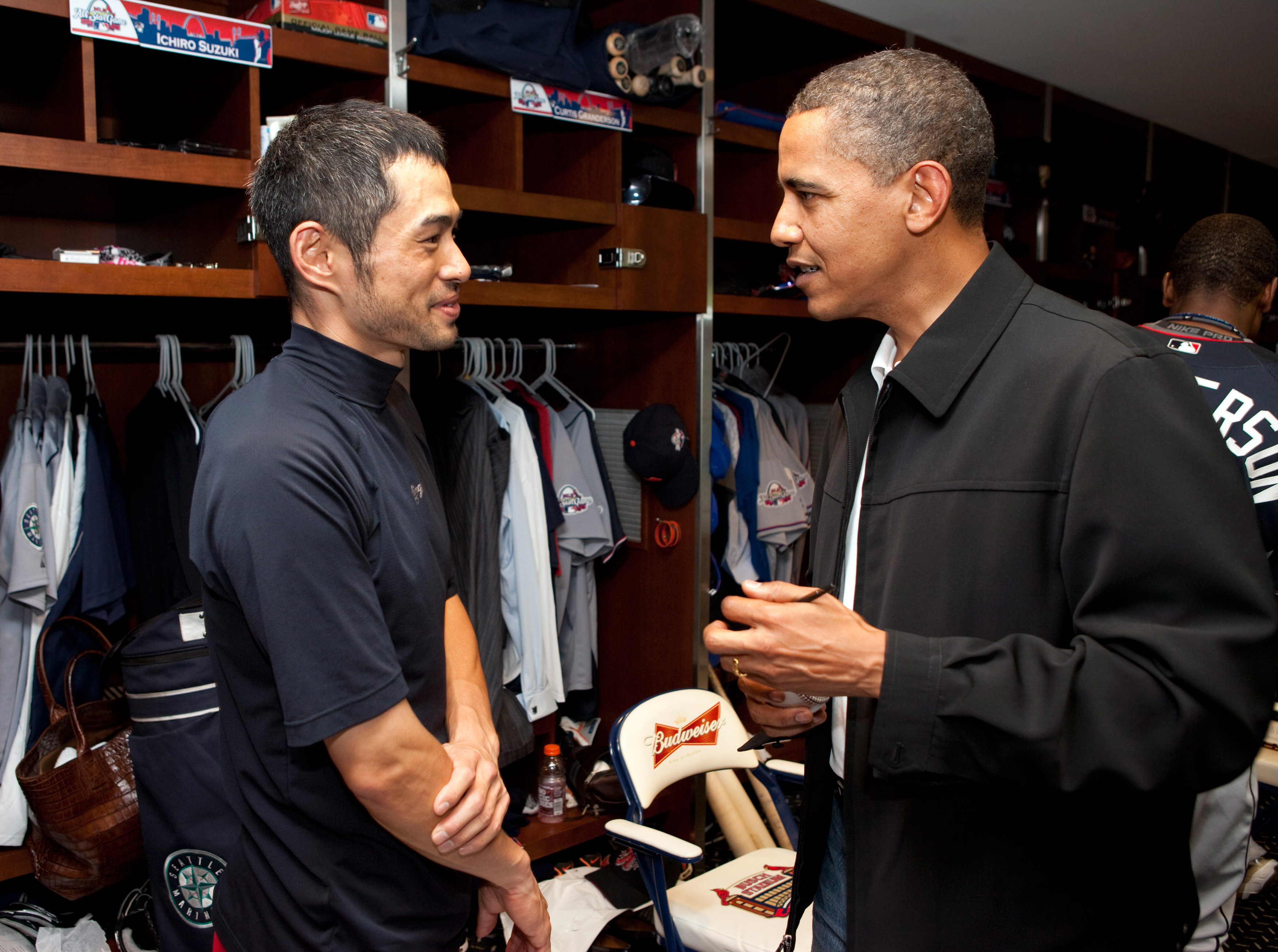 Ichiro Suzuki (left) and Barack Obama